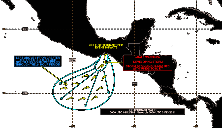 This is a graphicast issued by TAFB for a January 11-12, 2011 Tehuantepecer wind event.